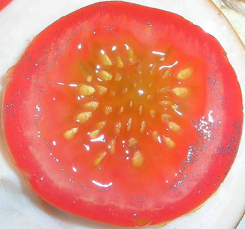 Weird yet beautiful tomato seed pattern...